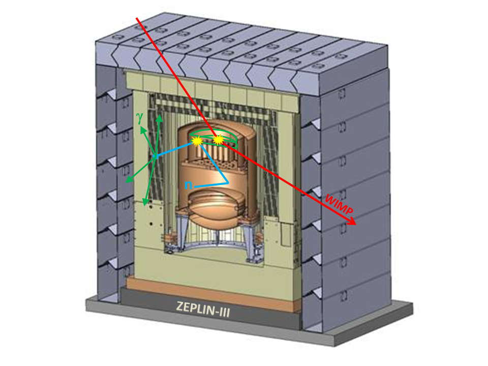 Cross-sectional view of ZEPLIN-III experiment (CAD) illustrating WIMP and neutron interactions in the liquid xenon target and neutron capture and detection in the anti-coincidence veto detector